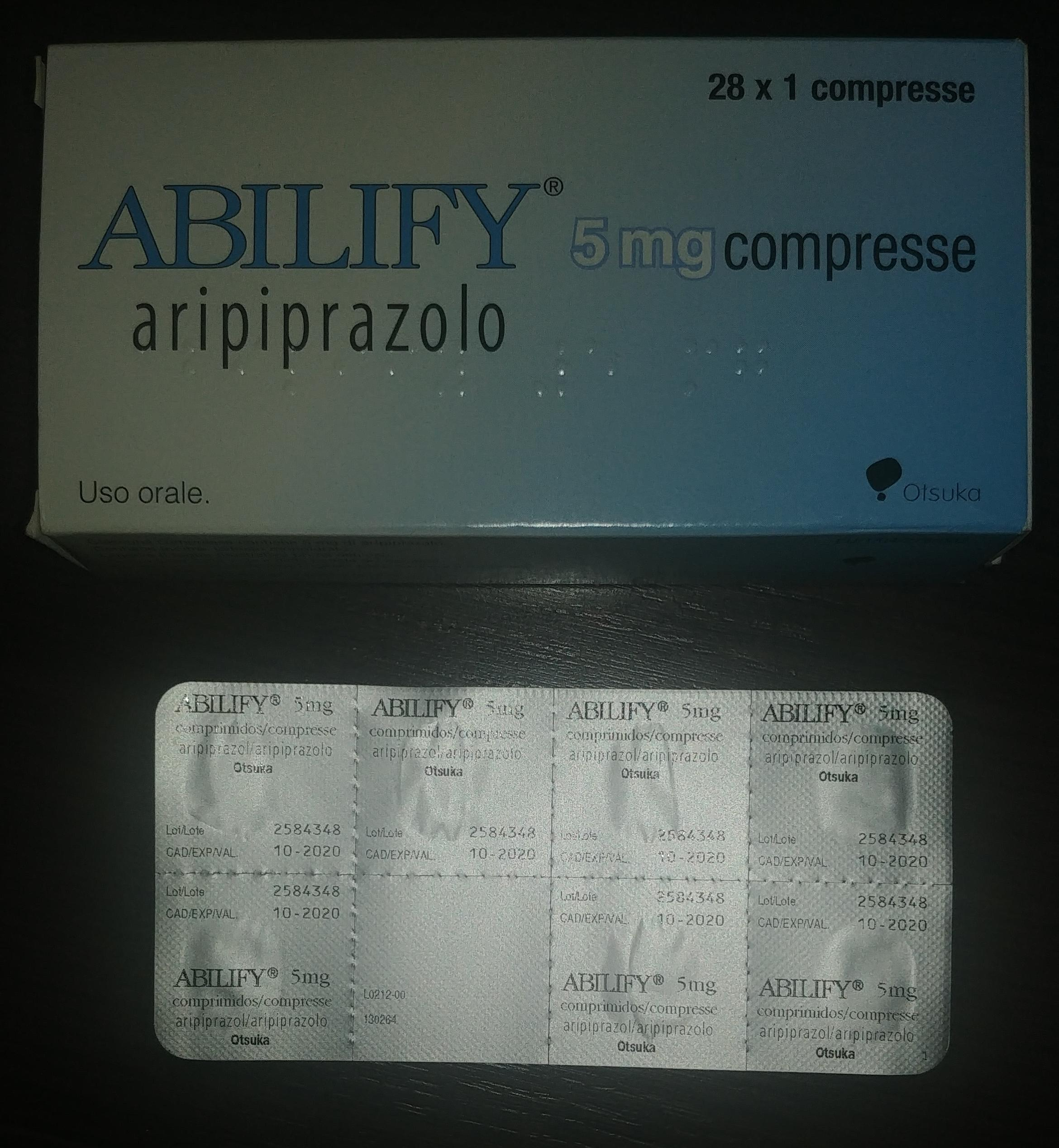 Abilify 5mg pills, Italian package with blister